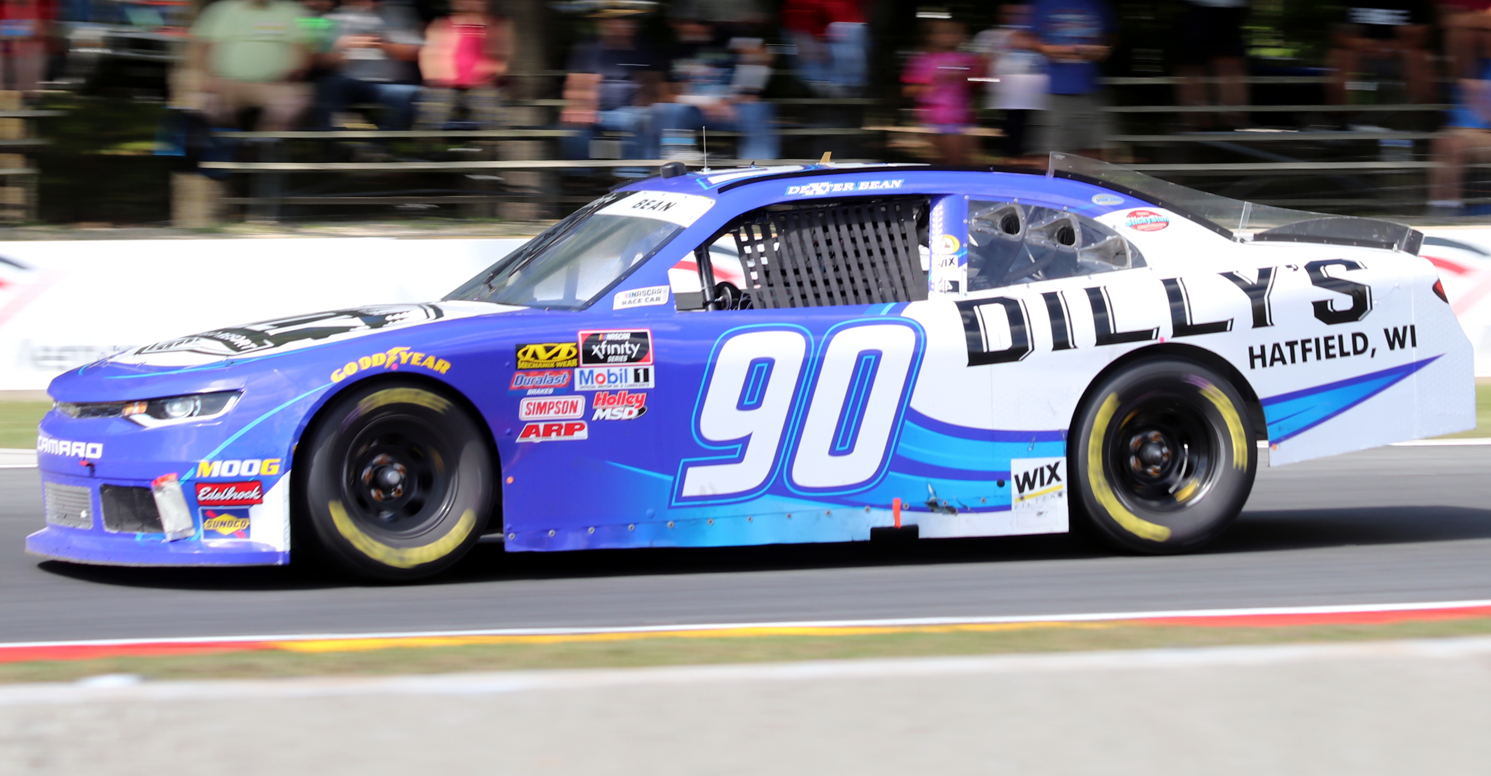 The #90 Chevrolet Camaro of Dexter Bean at the NASCAR CTECH 180.